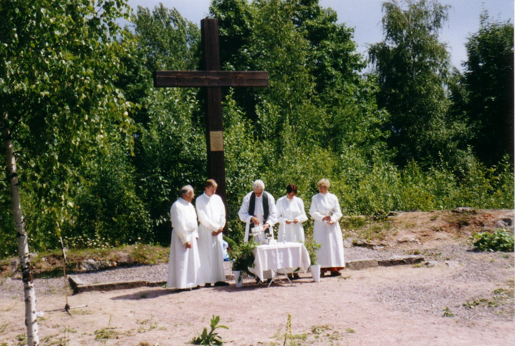 Divine service in the ruins of the Muolaa church in the Finnish Karelia ceded to the Soviet Union in 1944. Photo taken by Kyzyl on 30 June 2002.